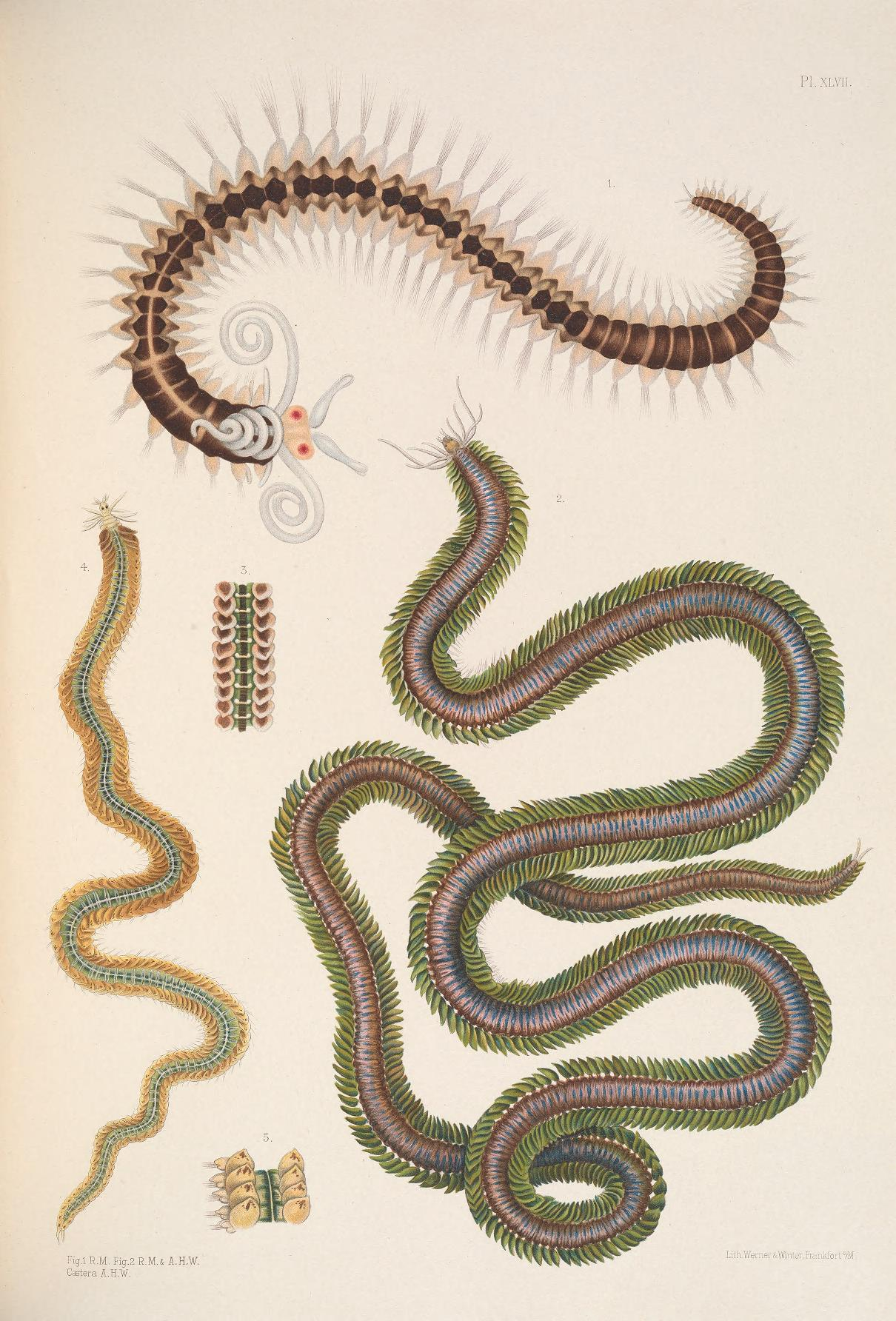 A monograph of the British marine annelids plate text 1 Autolytus pictus Ehlers, 1864 2 Phyllodoce lamelligera (Gmelin in Linnaeus, 1788) 3 Phyllodoce maculata (Linnaeus, 1767) 4,5 Phyllodoce rubiginosa = Nereiphylla rubiginosa (Saint-Joseph, 1888)